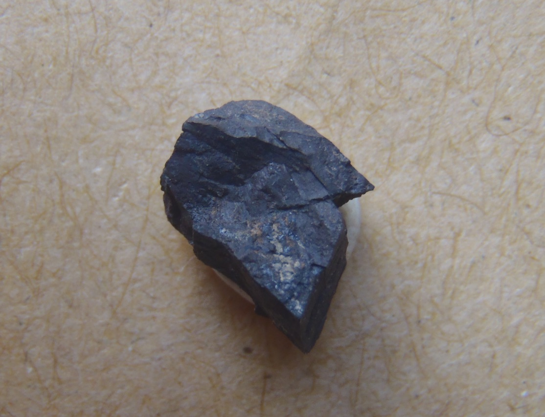 A very small crust of wakefieldite-Nd on ore, obtained at the Minerant 2016 (mineral show of the Mineralogische Kring Antwerpen), from J Hyrsl. Locality: Arase mine, Kami city, Kochi Prefecture, Shikoku Island, Japan